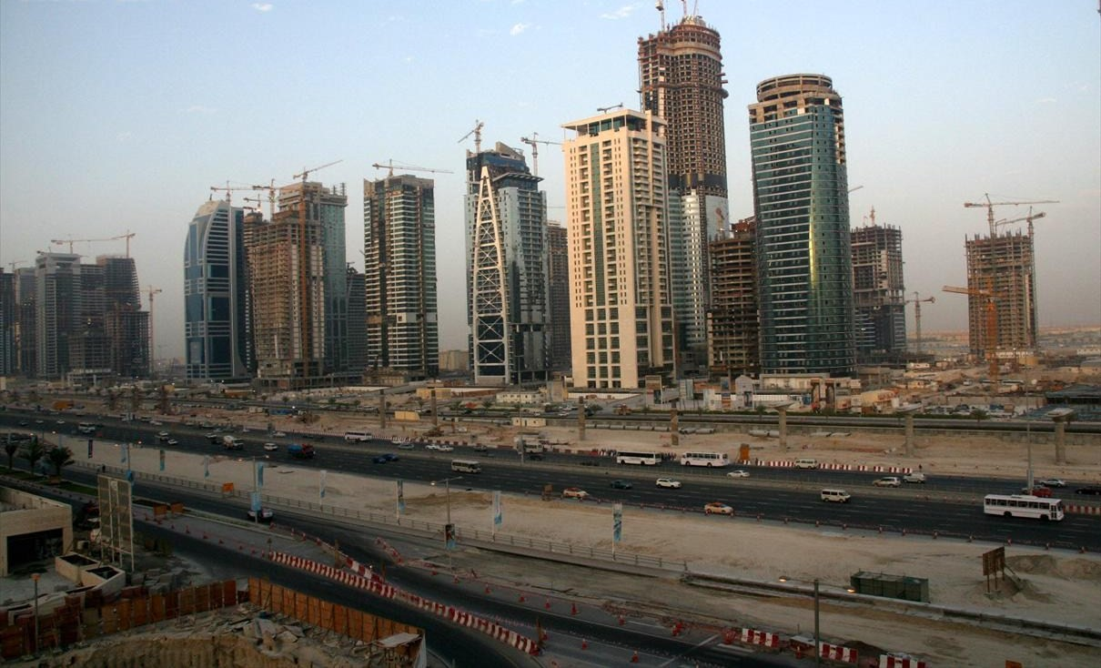 This is a photo showing the construction of Jumeirah Lake Towers in Dubai, United Arab Emirates, as seen from Dubai Marina on 13 June 2007.